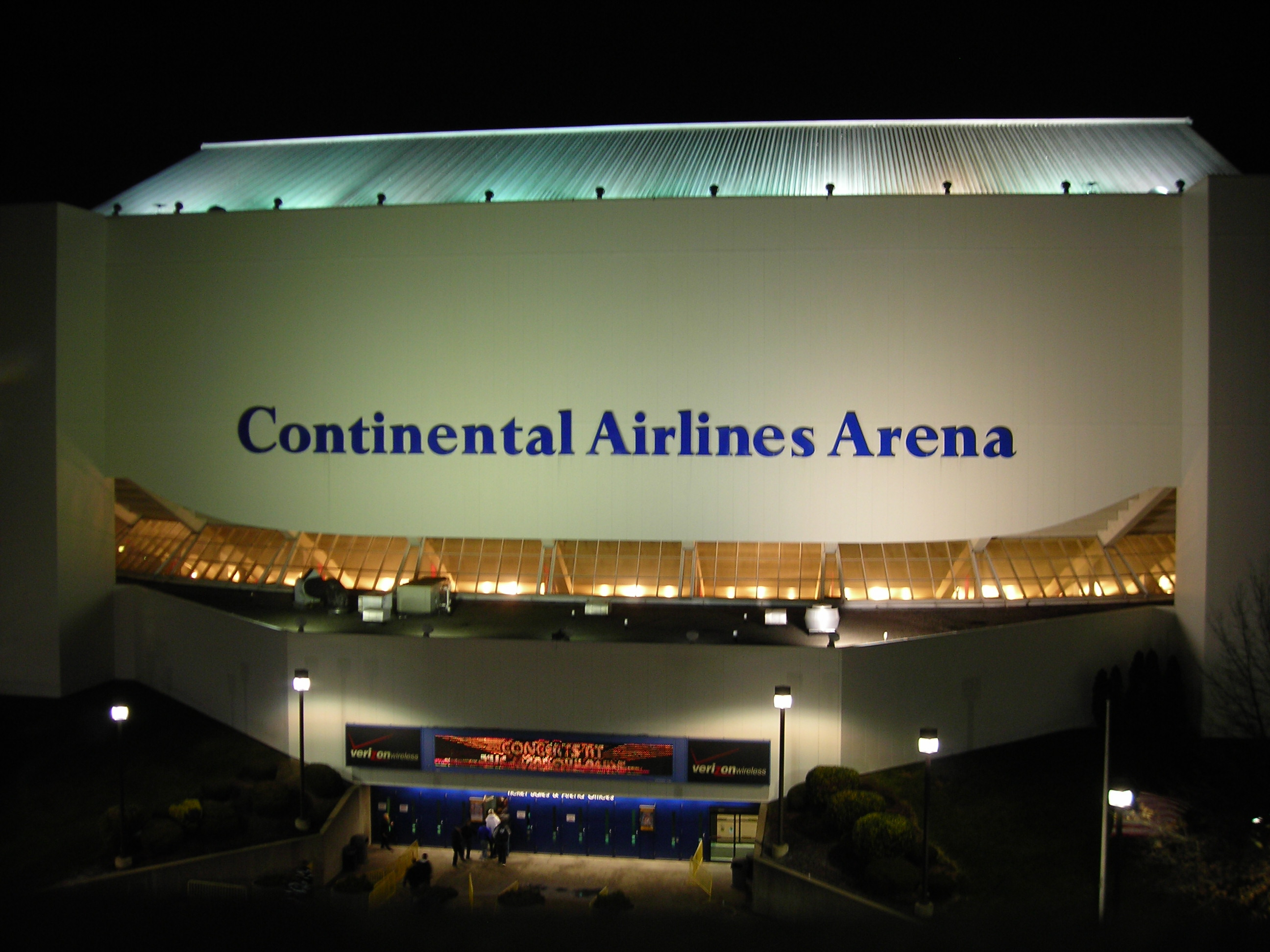 Photo taken by myself, January 19, 2007.